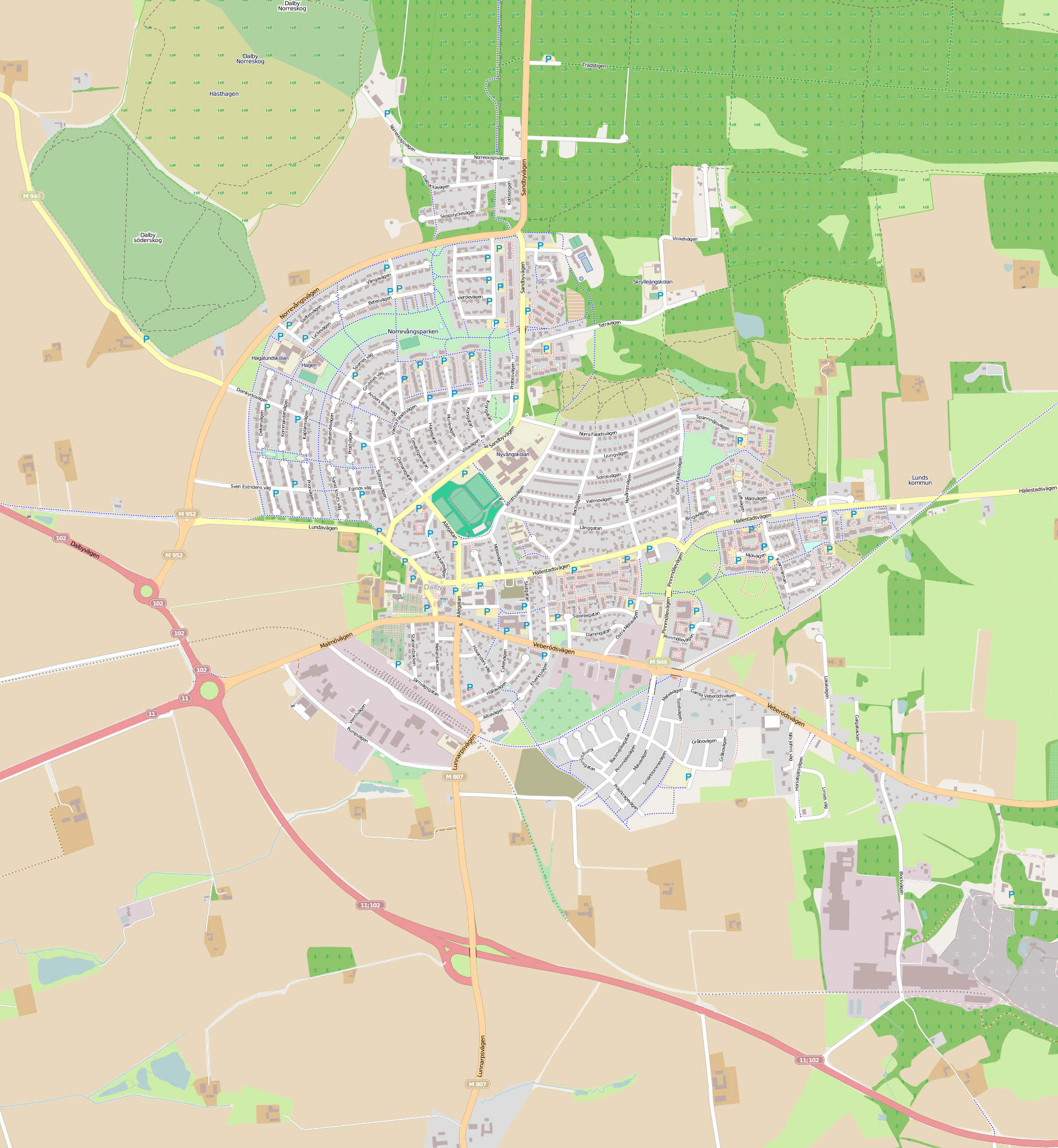 Map of Dalby, Sweden